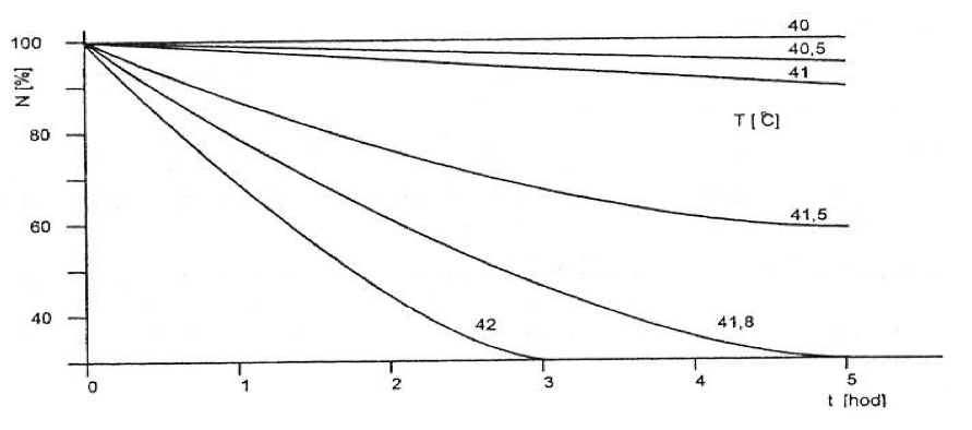 Závislost přežití buněk na teplotě T a době ohřevu t